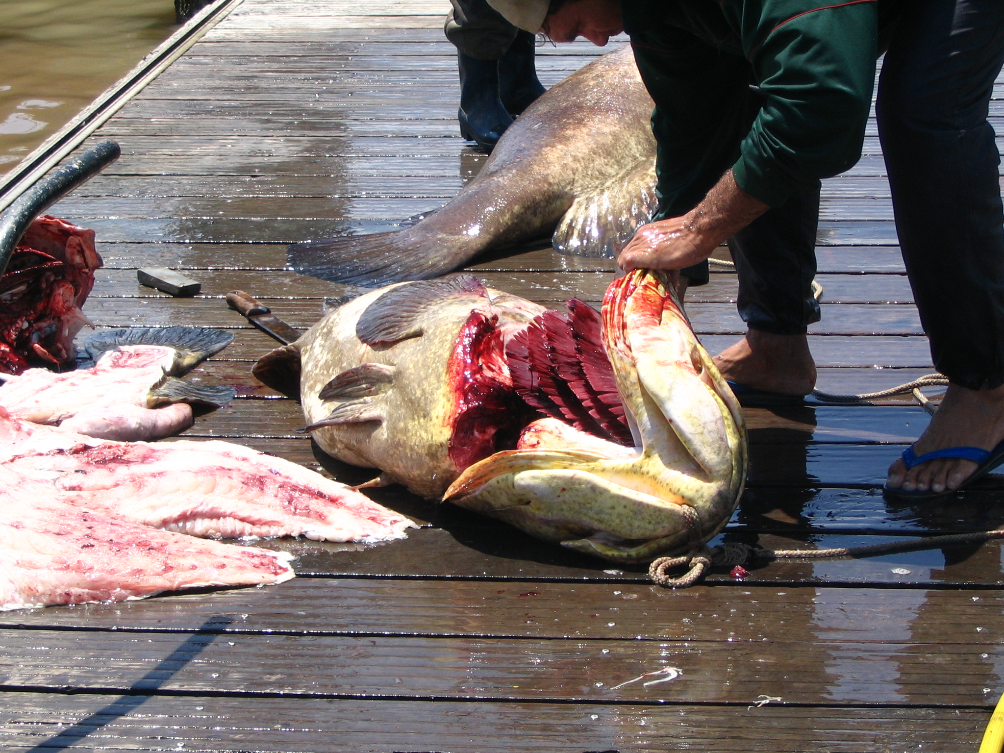 Fishermen in Kourou's port cutting up a freshly-caught mérou.